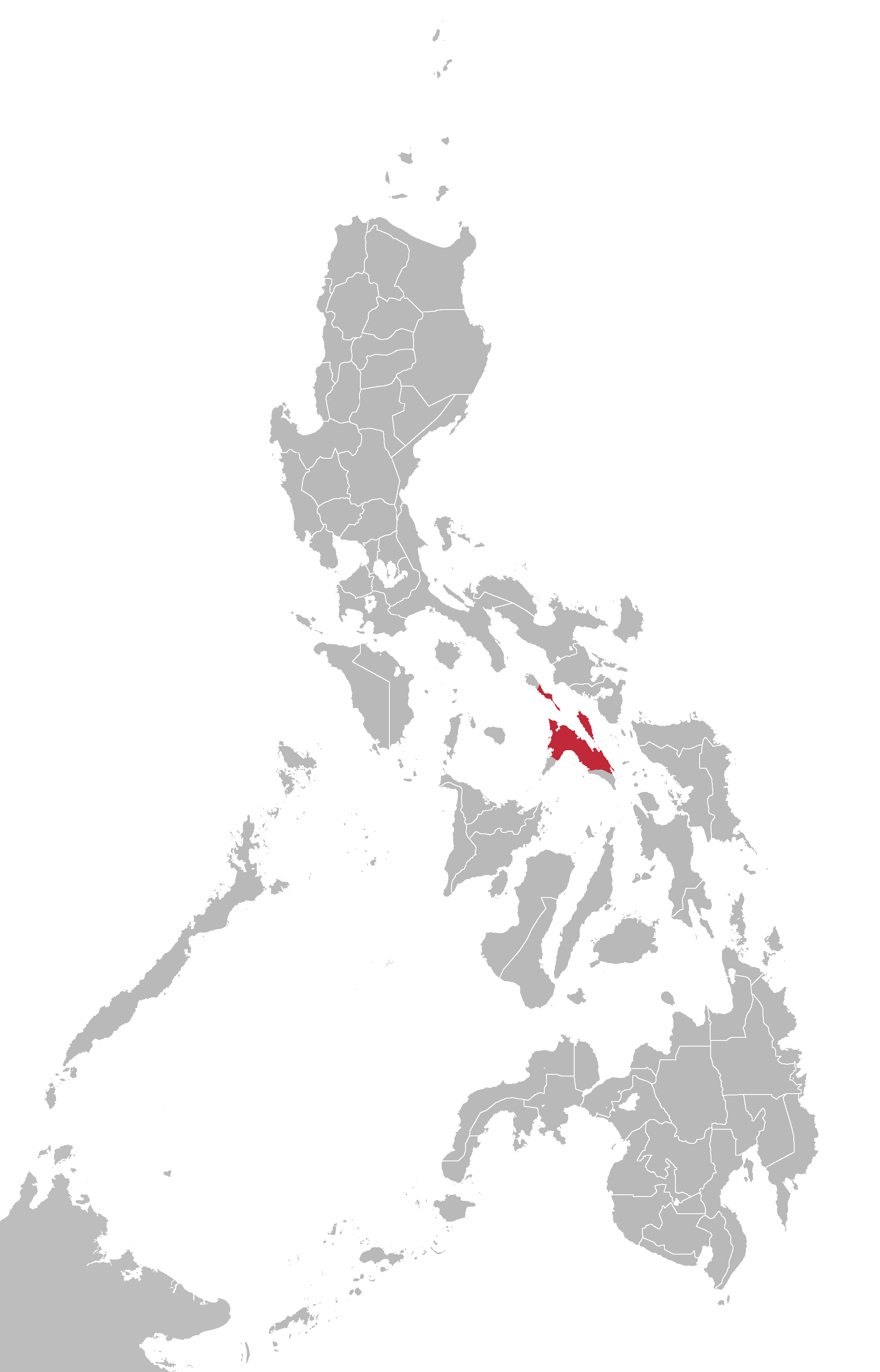 Masbatenyo language map based on Ethnologue maps